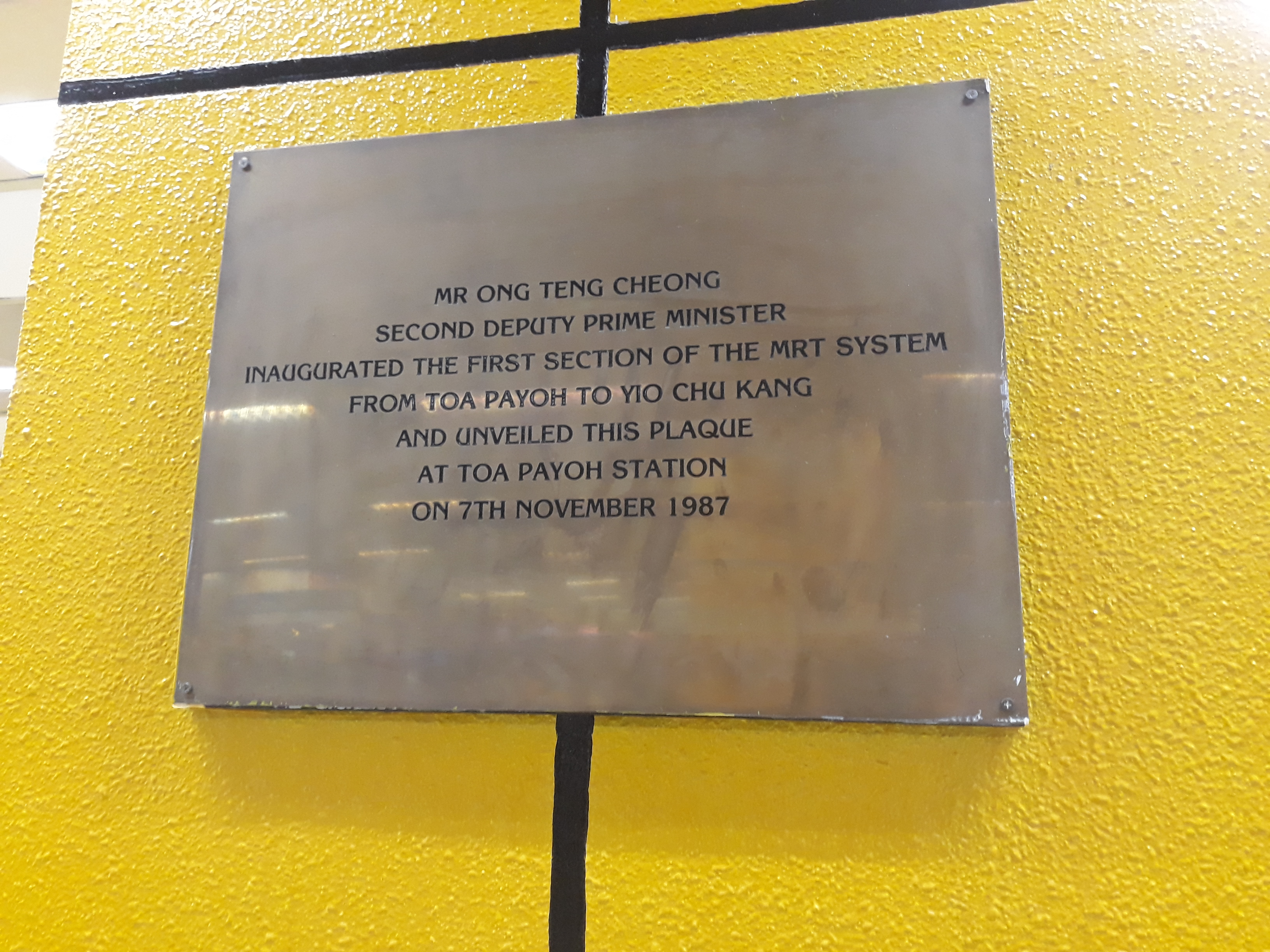 Plaque of the unveiling of Toa Payoh station